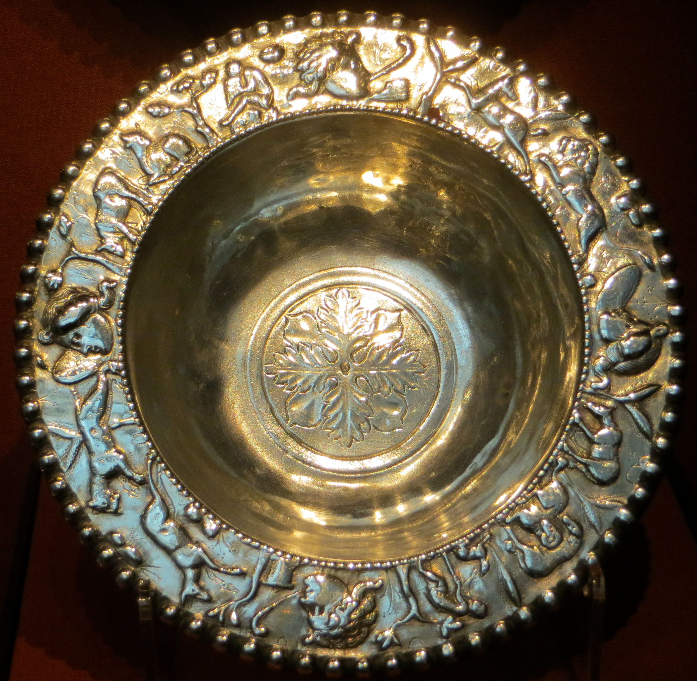 Item from the Carthage Treasure, British Museum